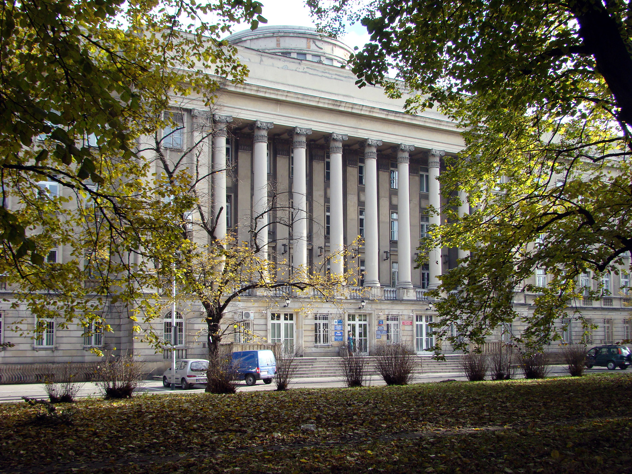 Clinical Hospital, 4, Lindleya St., Warsaw